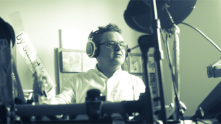 Stuart Jones - Composer